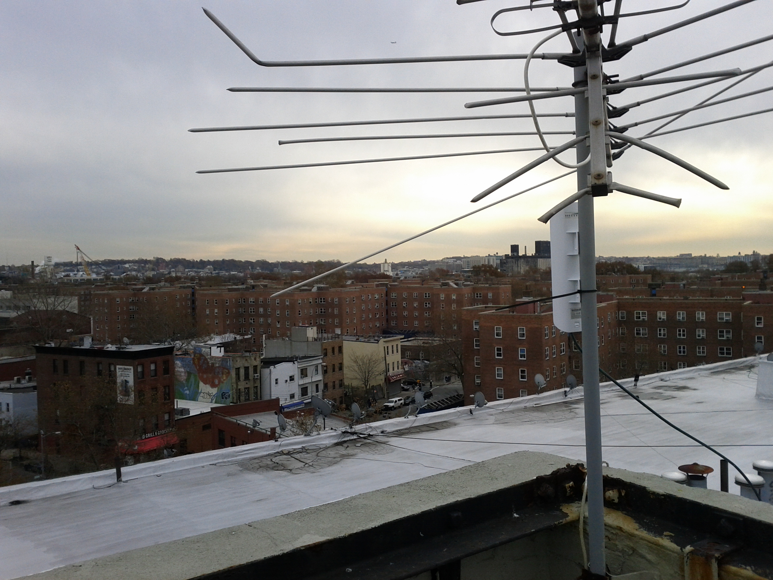 Repairing Red Hook WiFi mesh network node after Superstorm Sandy. After the storm, some cabling was damage and one directional node needed to be replaced.